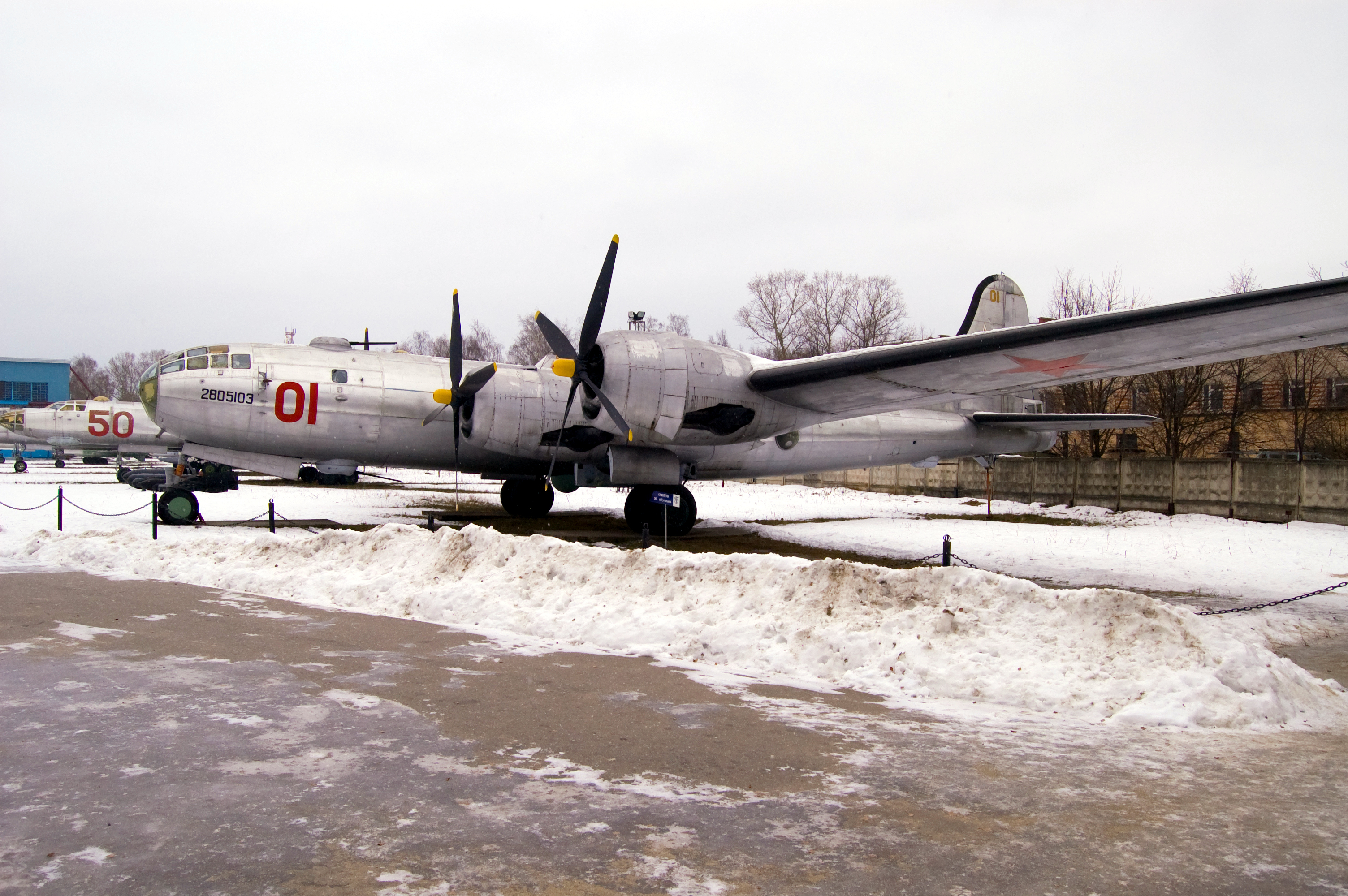 Bomer Tu-4 in Monino.